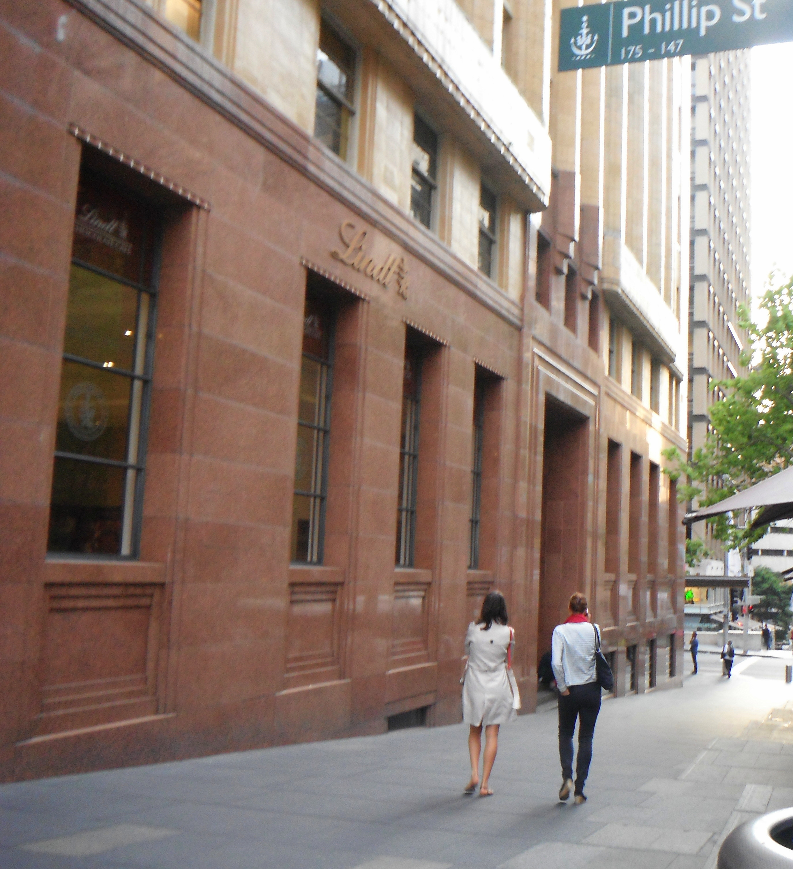 Lindt Café, Martin Place, Sydney (image has been altered for cropping and sharpening, 2014-12-17, by User:Sardaka)